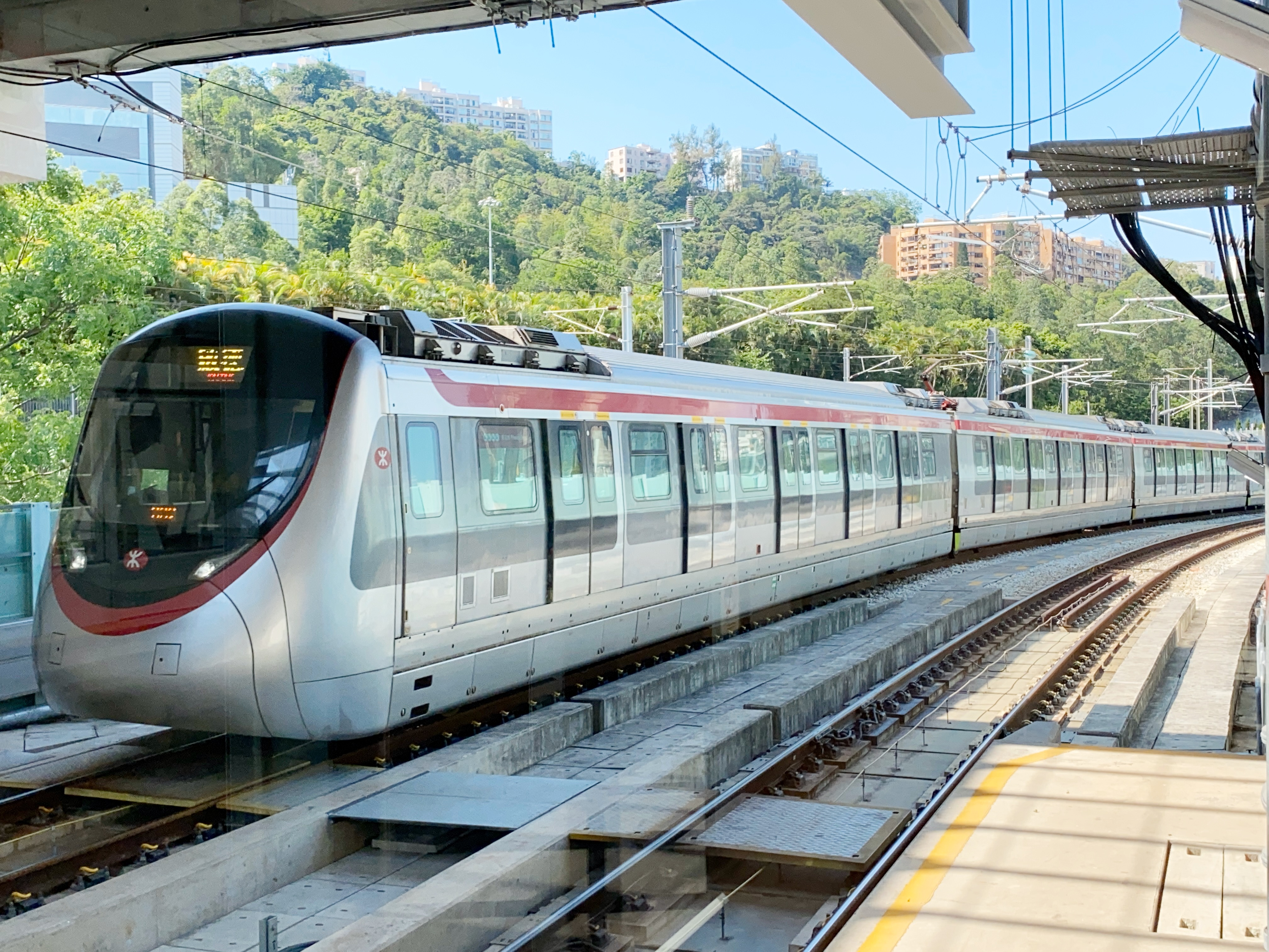 中文（香港）: This photo is taken in Hin Keng.